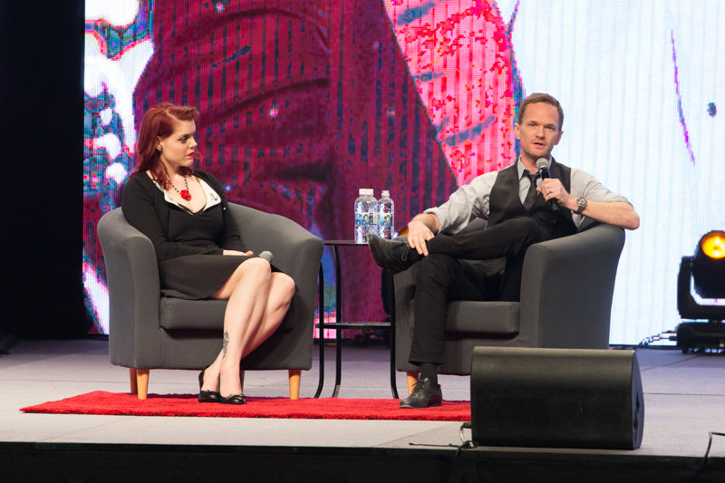 Neil Patrick Harris interviewed by Emily Expo at the Calgary Expo 2015.